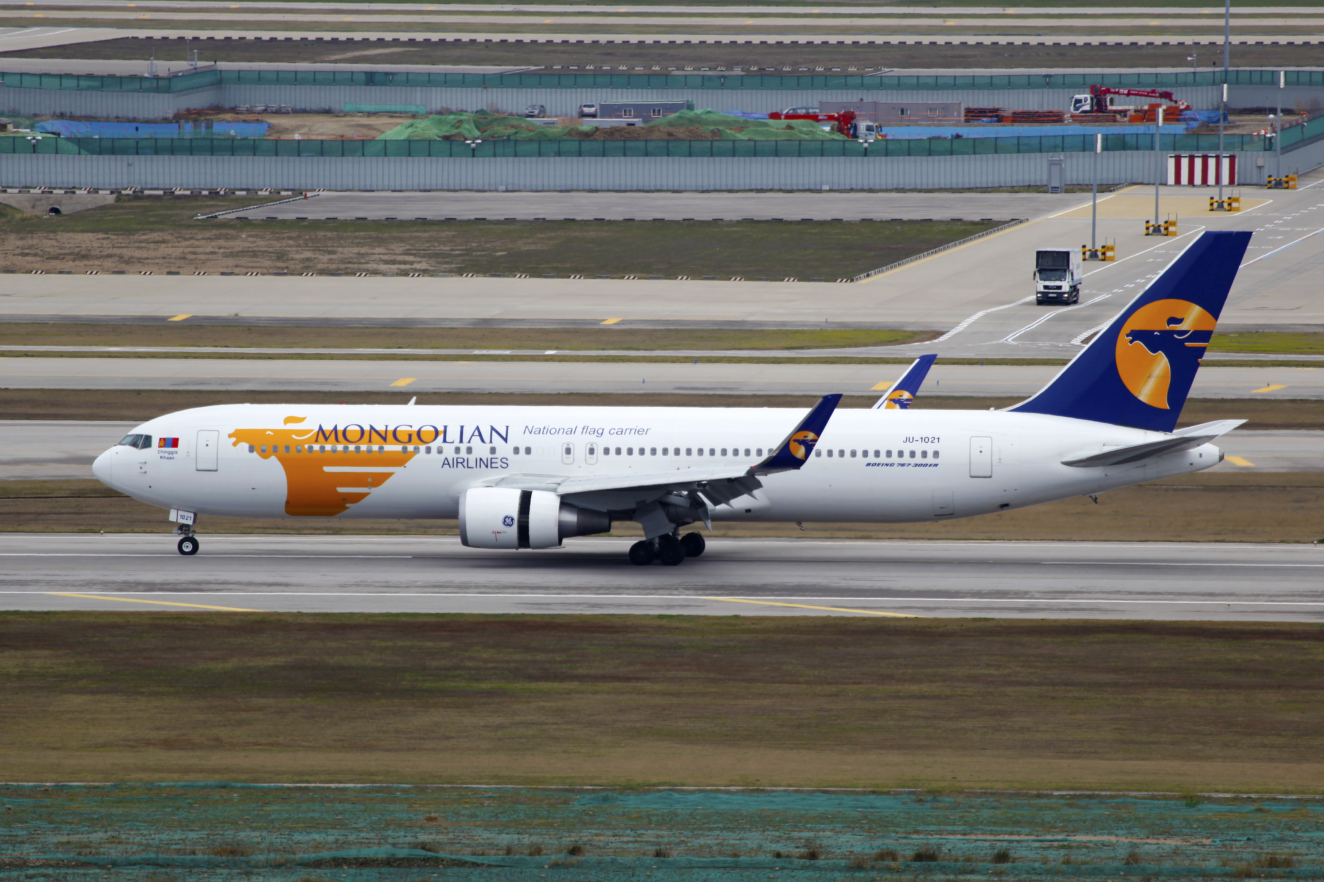 Mongolian Airlines Boeing 767-34G(ER)(WL) Seoul Incheon International Airport [ICN]